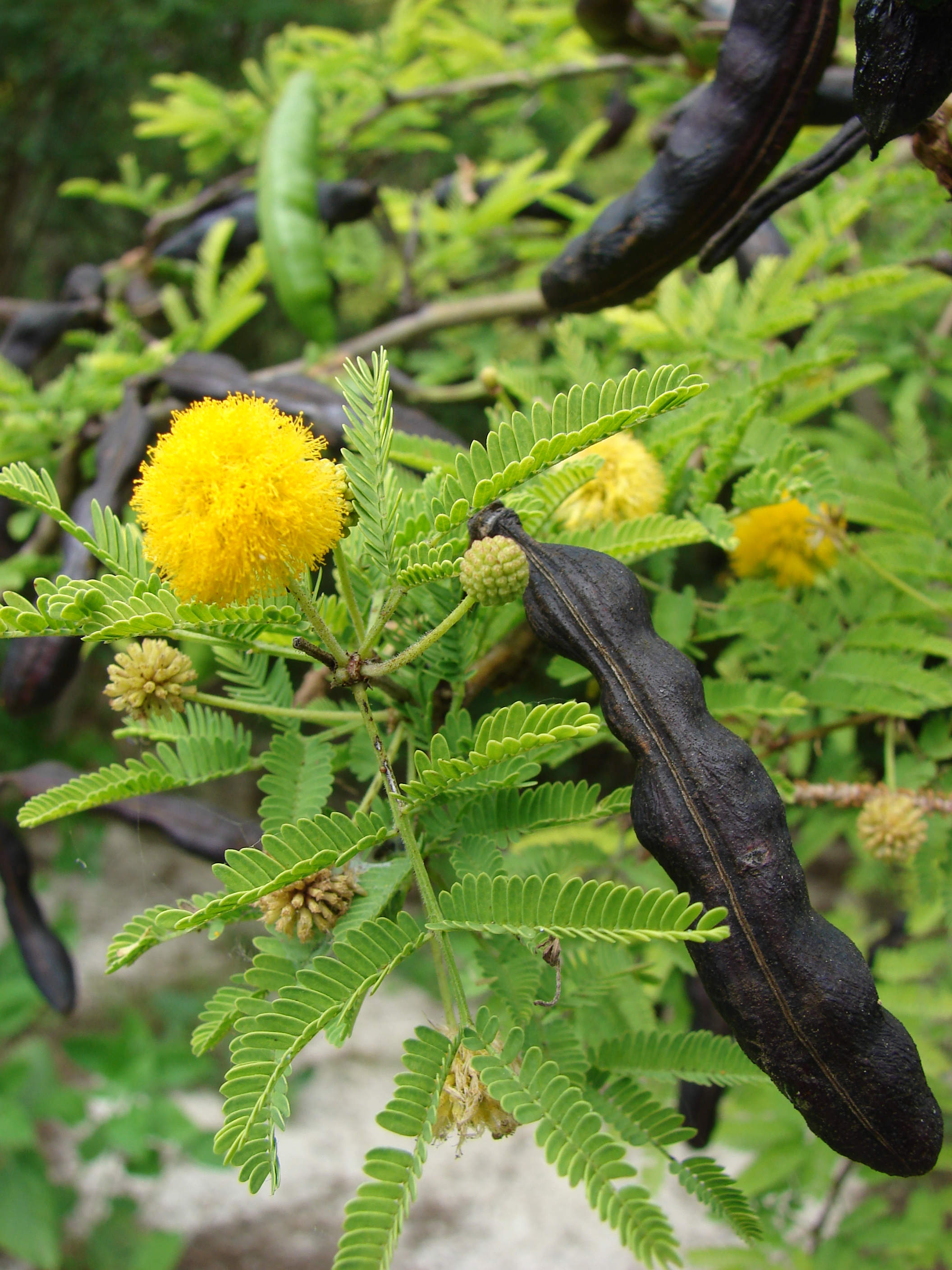 Acacia farnesiana (leavesflowers and seedpods). Location: Midway Atoll, Decatur Ave Sand Island